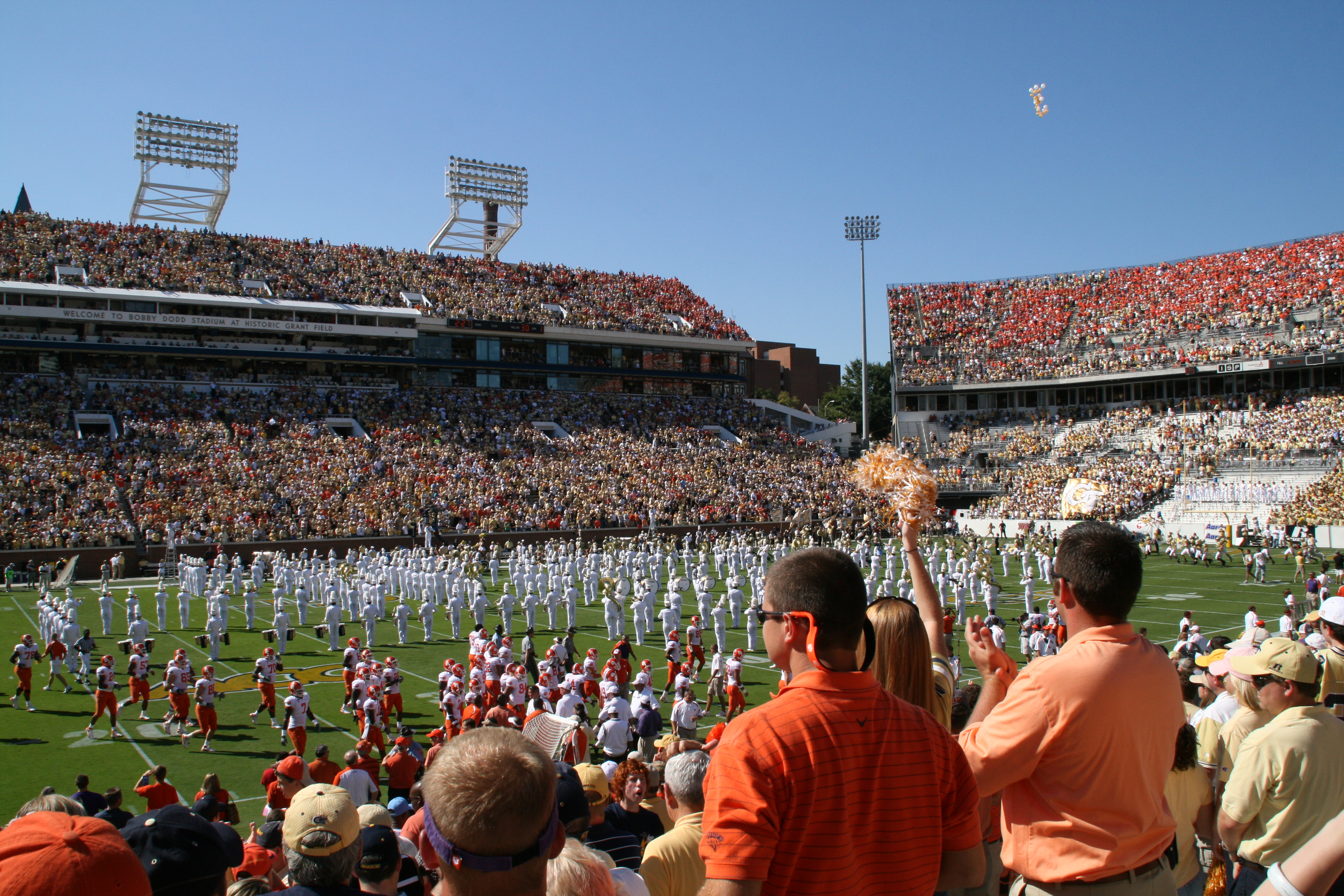 The 2007 Georgia Tech Yellow Jackets football team vs the 2007 Clemson Tigers football team at Bobby Dodd Stadium in Atlanta, Georgia.